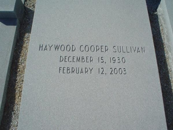 Grave of Haywood Cooper Sullivan at the Dothan City Cemetery in Dothan, Alabama